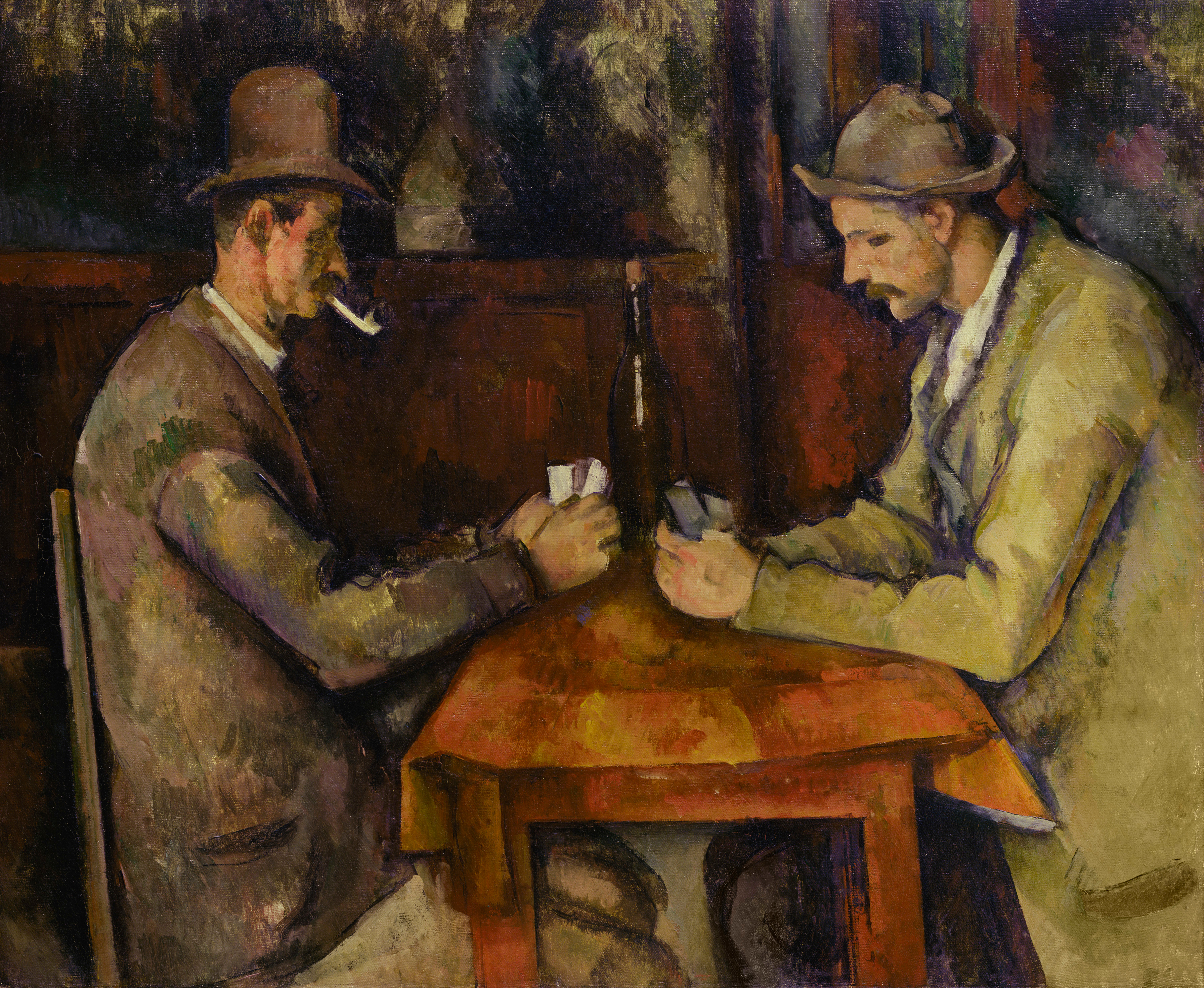 Card Players (5th version) (ca.1894-1895) by Paul Cezanne, oil on canvas, Musée d'Orsay